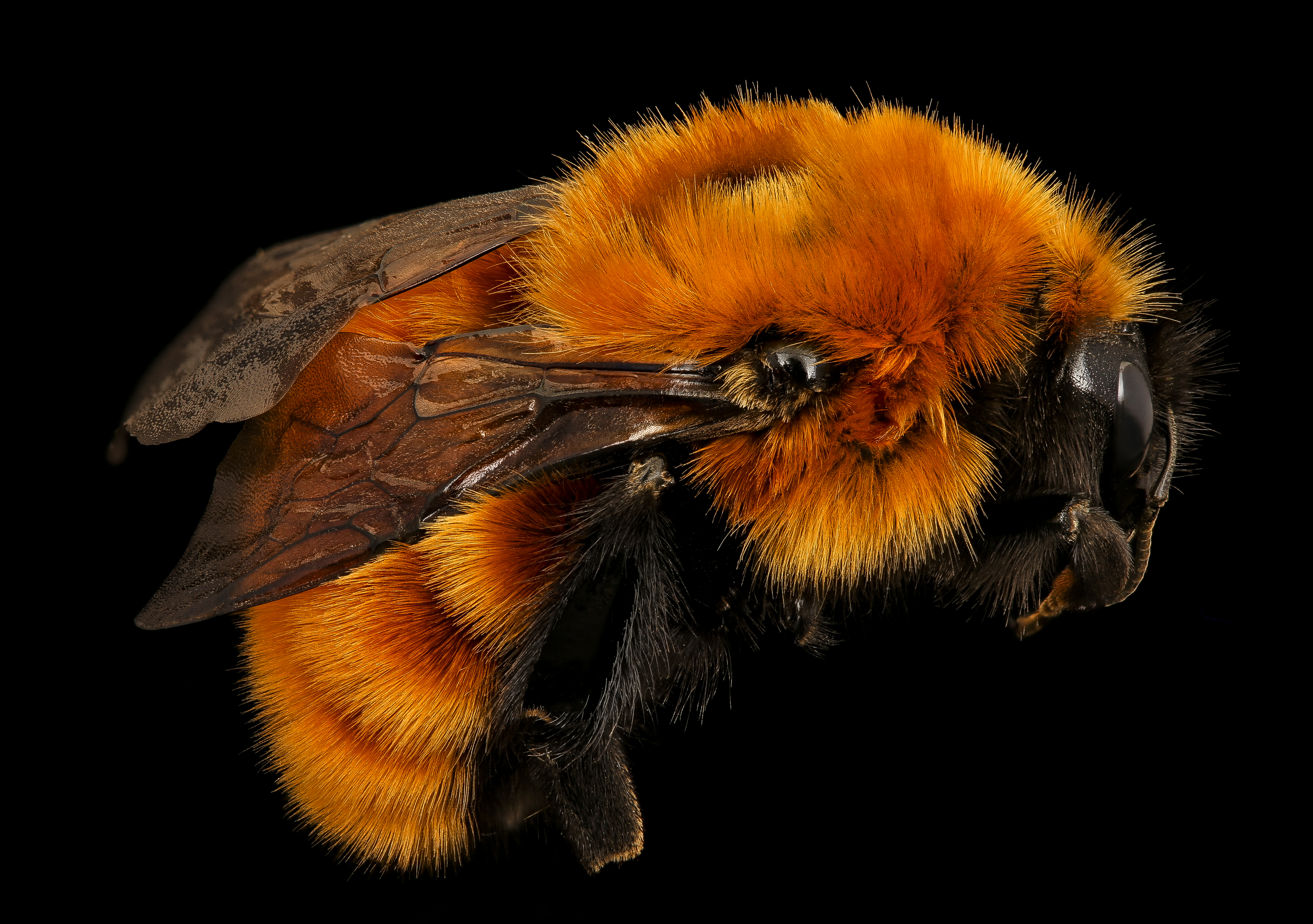 The giant bumblebee (Bombus dahlbomii). A denizen of the southern Andes and widely believed to be in decline due to competition and perhaps spread of pathogens with two introduced European bumblebees that have invaded the region. You notice this bee when it flies by. Dramatically orange with yellow highlights on the traditional deep black integument of bumblebees. 13:06, 25 December 2018 (UTC)13:06, 25 December 2018 (UTC) 0 13:06, 25 December 2018 (UTC)13:06, 25 December 2018 (UTC) All photographs are public domain, feel free to download and use as you wish. Photography Information: Canon Mark II 5D, Zerene Stacker, Stackshot Sled, 65mm Canon MP-E 1-5X macro lens, Twin Macro Flash in Styrofoam Cooler, F5.0, ISO 100, Shutter Speed 200 Beauty is nature's fact. - Emily Dickinson You can also follow us on Instagram - account = USGSBIML Want some Useful Links to the Techniques We Use? Well now here you go Citizen: Best over all technical resource for photo stacking: Art Photo Book: Bees: An Up-Close Look at Pollinators Around the World: Free Field Guide to Bee Genera of Maryland: Basic USGSBIML set up: USGSBIML Photoshopping Technique: Note that we now have added using the burn tool at 50% opacity set to shadows to clean up the halos that bleed into the black background from "hot" color sections of the picture. Bees of Maryland Organized by Taxa with information on each Genus PDF of Basic USGSBIML Photography Set Up: ftp://ftpext.usgs.gov/pub/er/md/laurel/Droege/How%20to%20Take%20MacroPhotographs%20of%20Insects%20BIML%20Lab2.pdf Google Hangout Demonstration of Techniques: or Excellent Technical Form on Stacking: Contact information: Sam Droege 301 497 5840